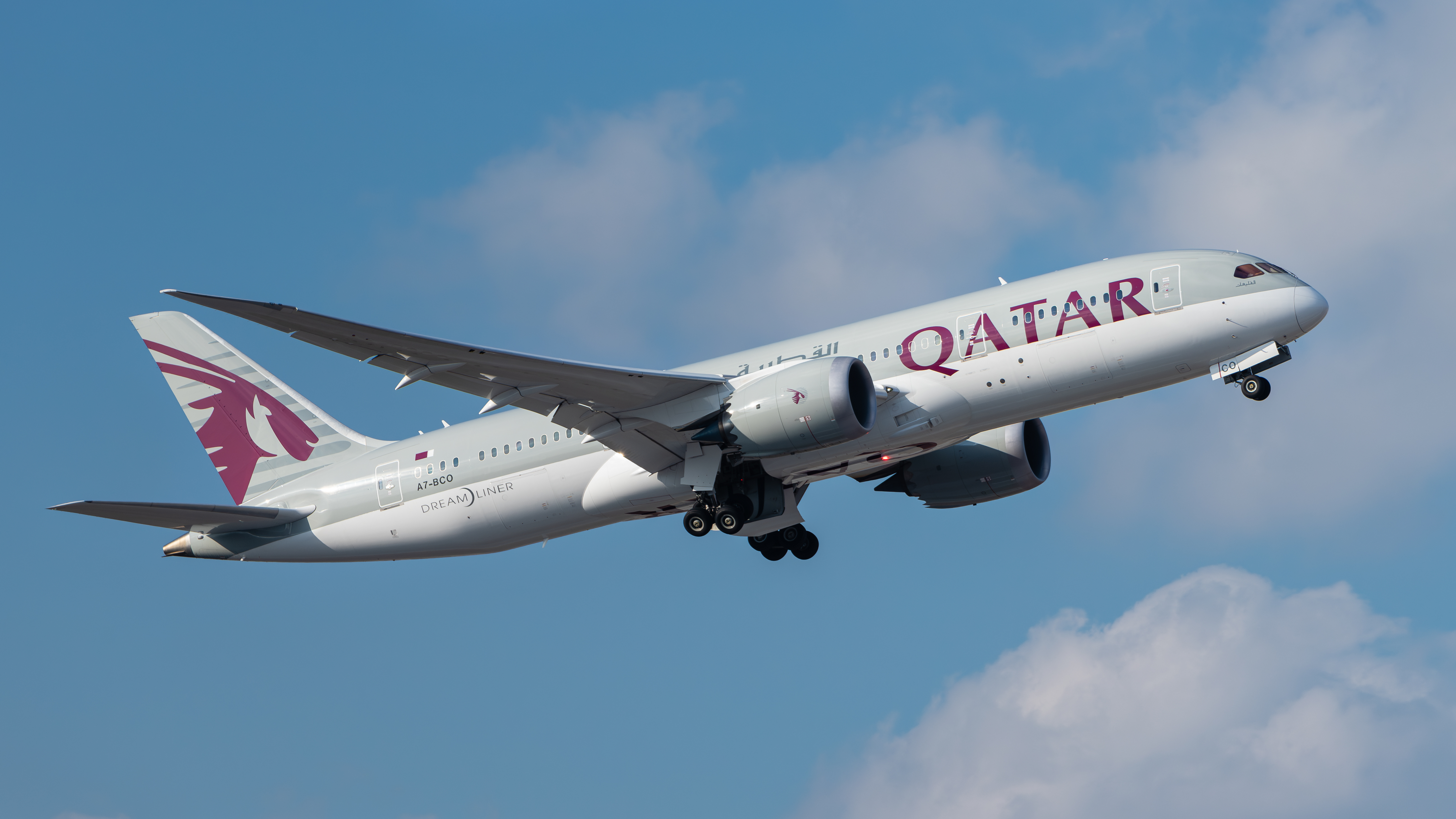 Qatar Airways Boeing 787-8 Dreamliner (reg. A7-BCO, msn 38333/188) at Munich Airport (IATA: MUC; ICAO: EDDM) departing 08R.